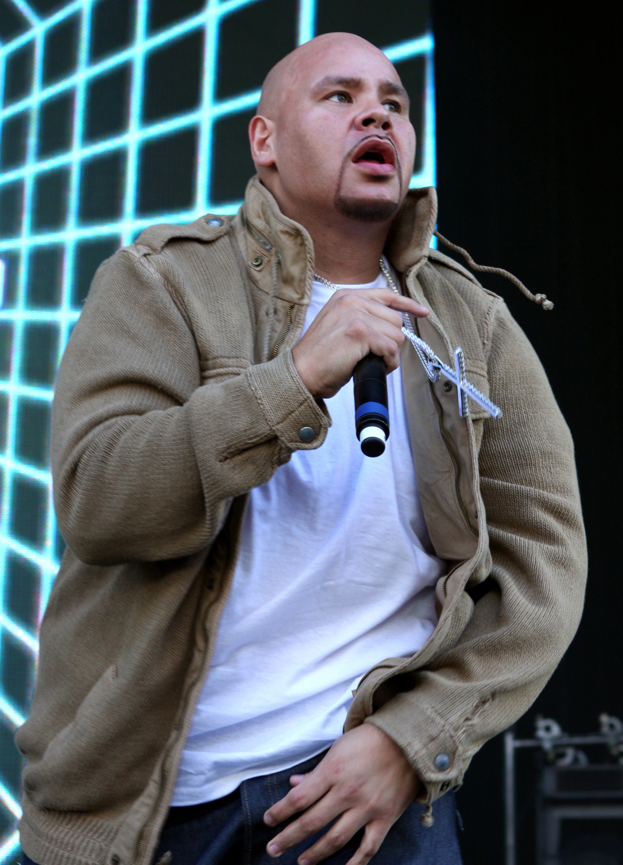 Fat Joe performing at Supafest in Australia in April 2011.